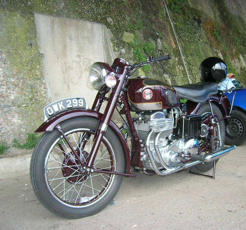 Originally designed pre-war by Edward Turner as a 500cc four cylinder machine, the Square Four was enlarged to 600cc then by Val Page to 1000cc until it's demise.